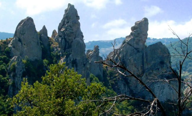 Dolomiti Lucane, Apennine mountains, Basilicata, Italy